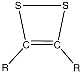 structure of 1,2-dithiete